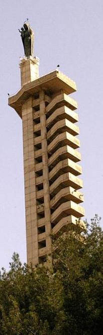 Our Lady of Zahle and the Bekaa in Zahle, Lebanon